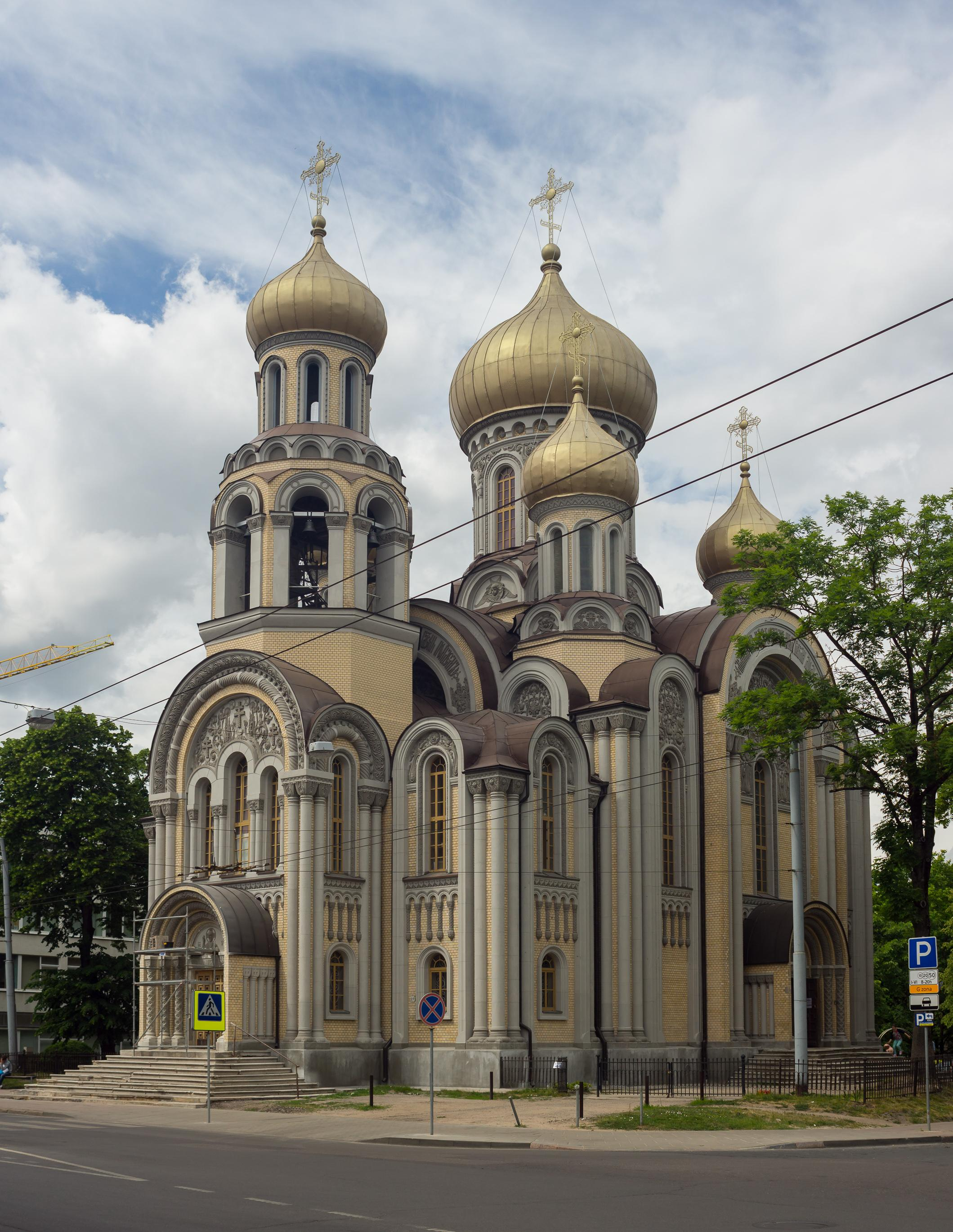 Orthodox church of Saint Michael and Saint Constantine with its new golden roof in Vilnius, Lithuania.